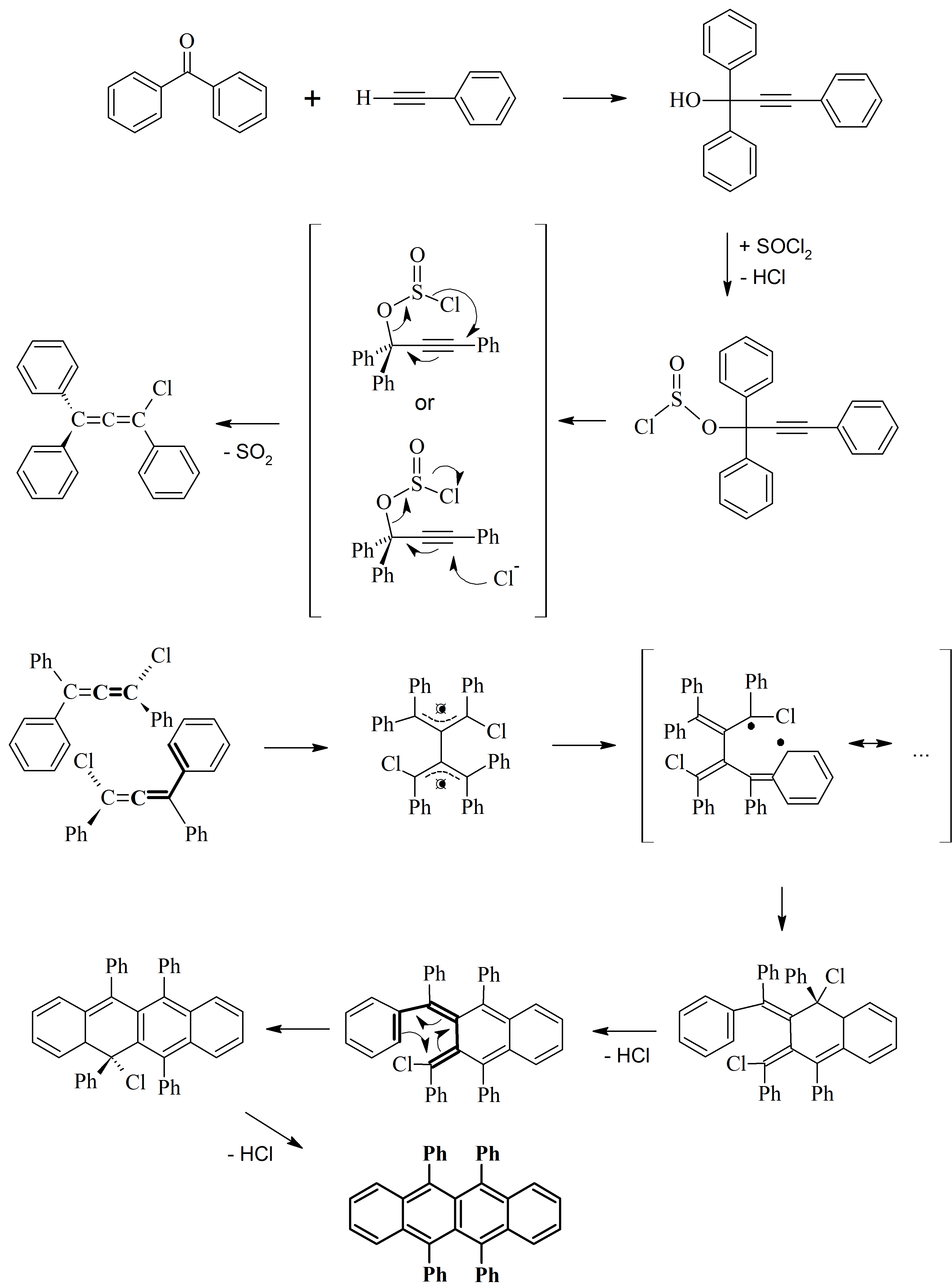 Synthesis of Rubrene